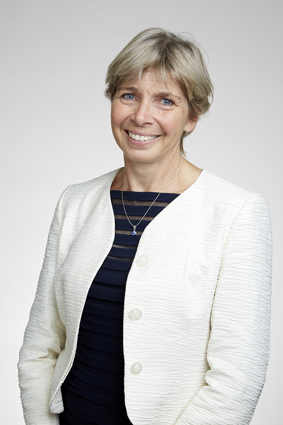 Sarah Cleaveland OBE FRS FRSE is a veterinary surgeon and Professor of Comparative Epidemiology at the University of Glasgow. Attribution: The Royal Society